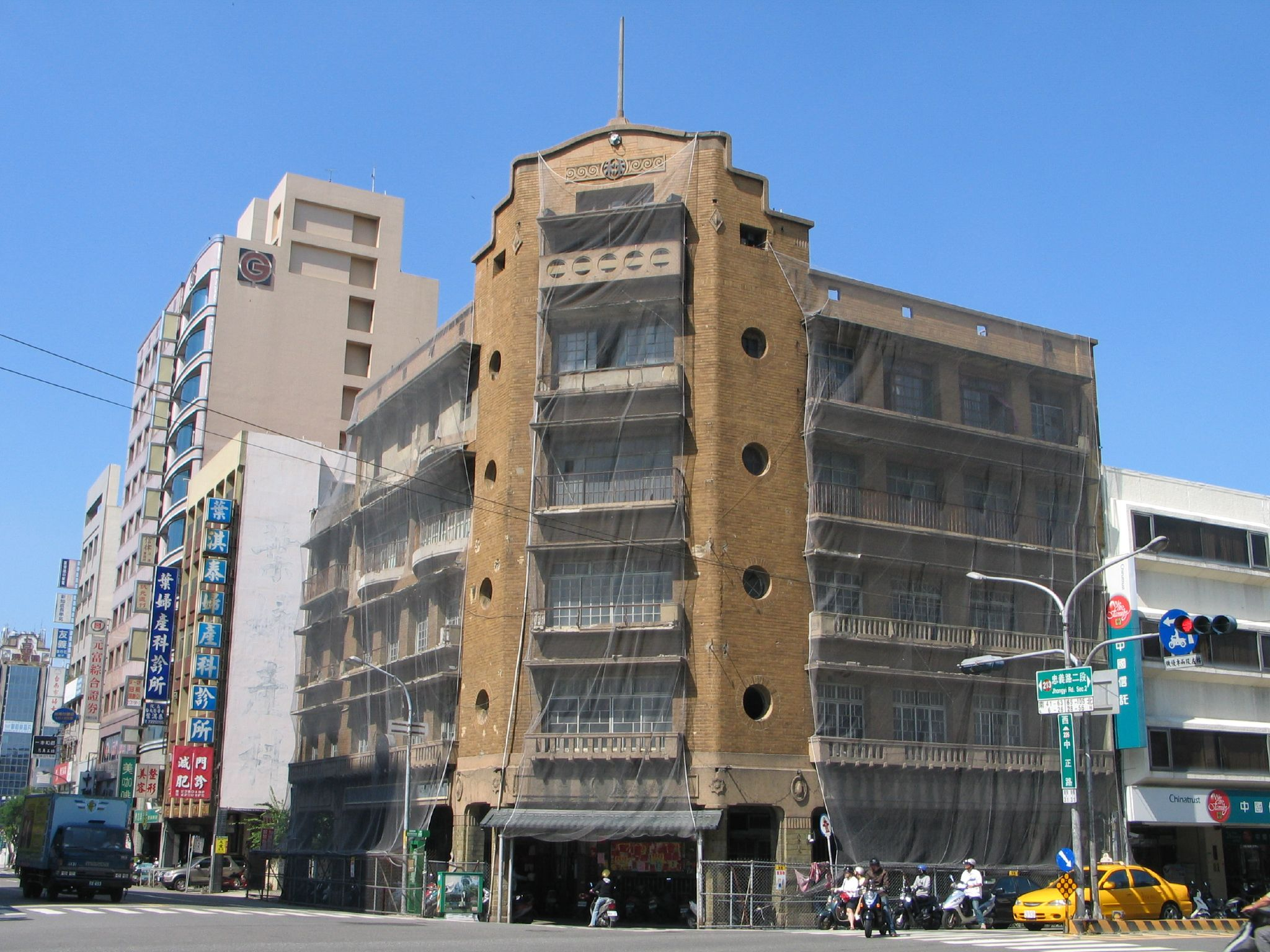 Hayashi Department Store.